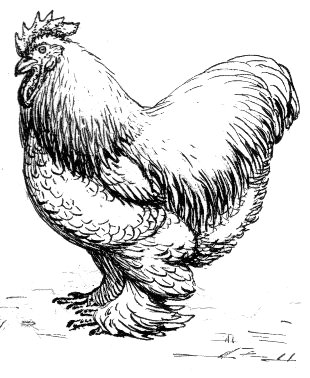 line art drawing of a cochin.